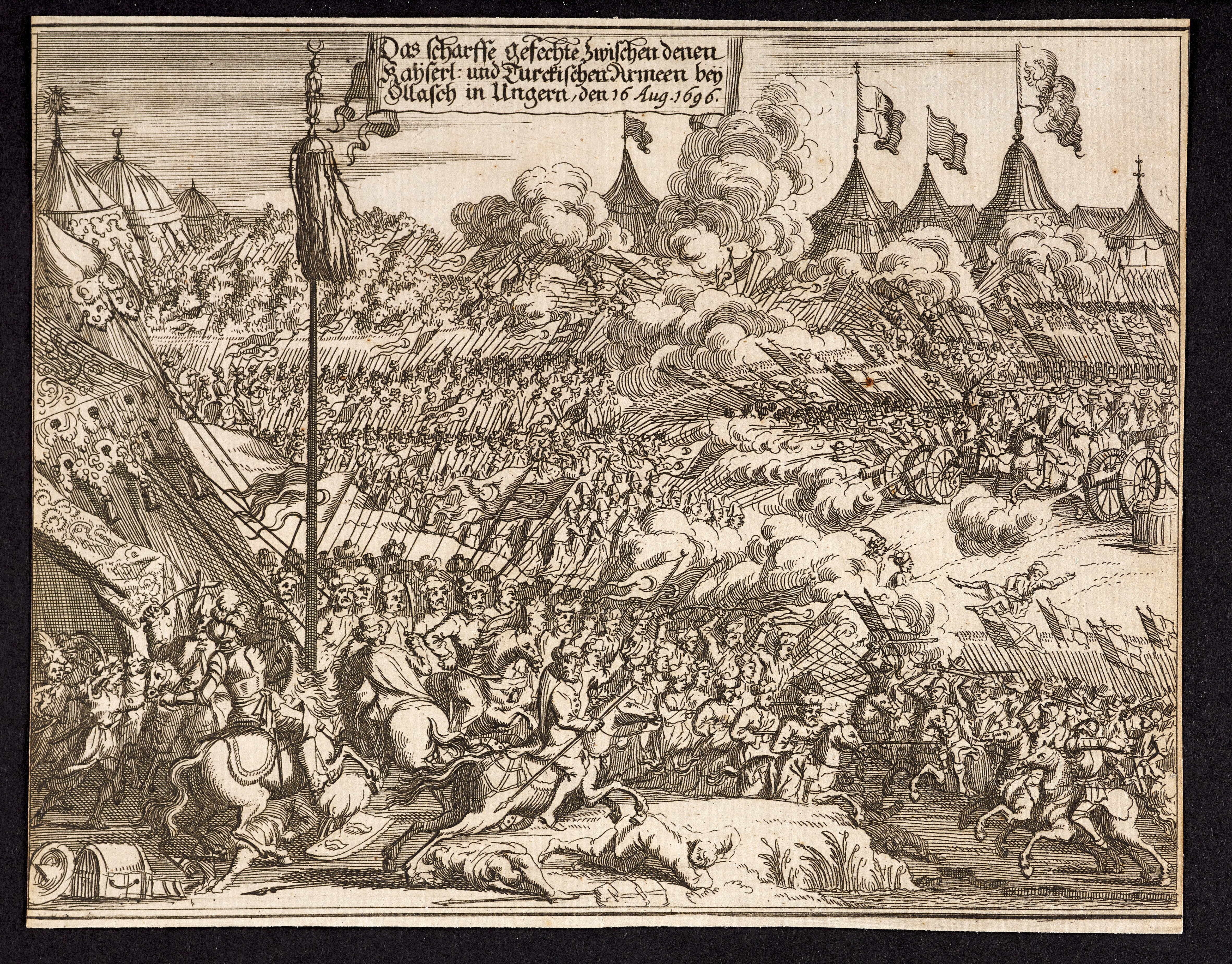 The Battle of Olasch (Ulaş) - Copper engraving, unknown author